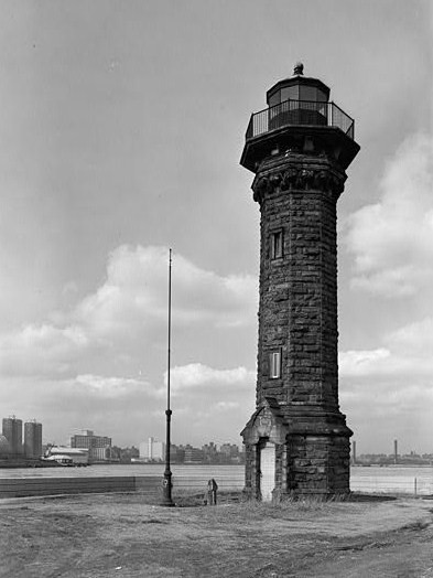 Welfare Island, Lighthouse, New York (New York County, New York), cropped